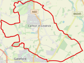 Map of the Carlton ward of Bassetlaw. This map may be incomplete, and may contain errors. Don't rely solely on it for navigation.